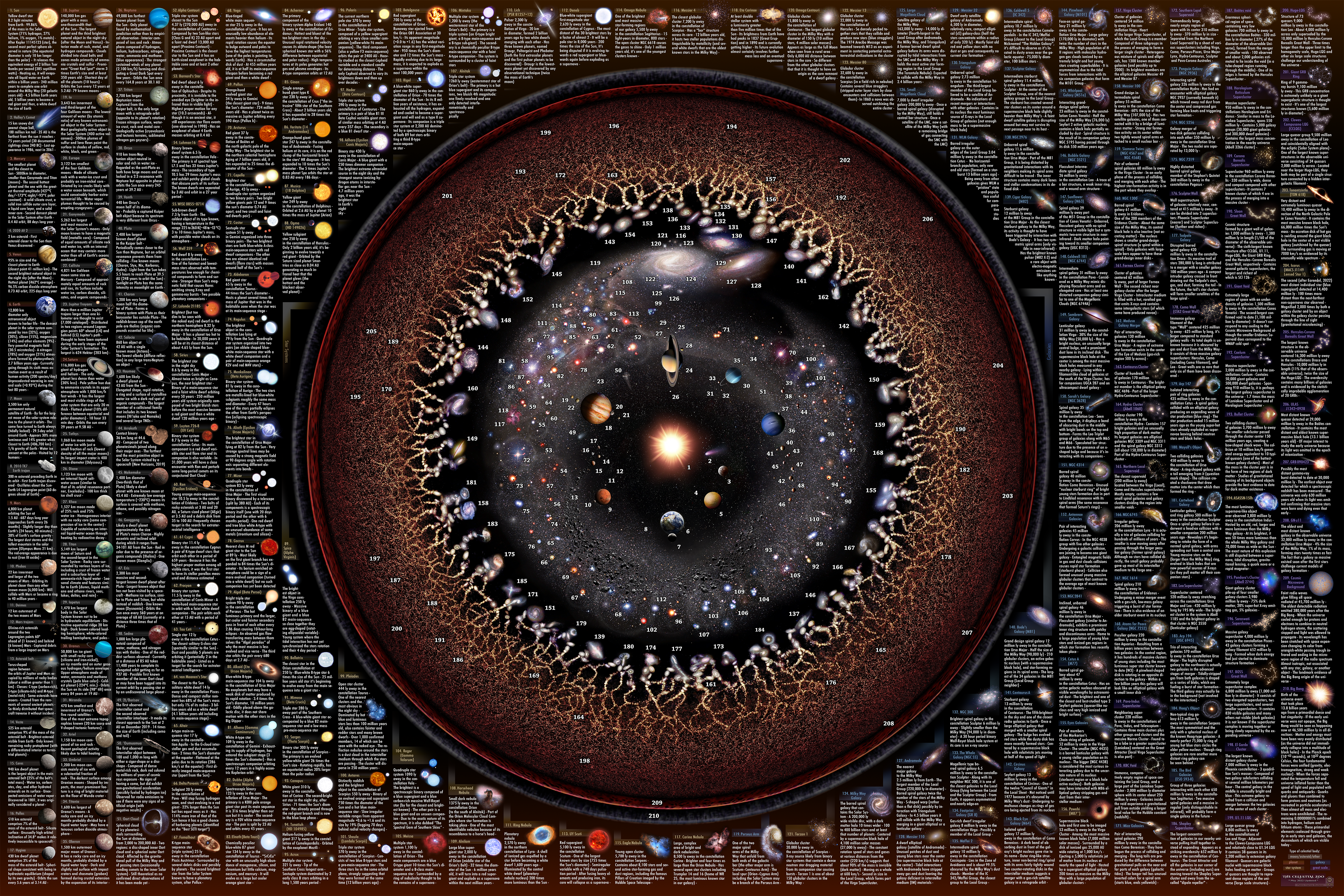 Infographic listing 210 notable astronomical objects marked on a central logarithmic map of the observable universe. A small view and some distinguishing features are included for each astronomical object. The color tags are gray for moons, asteroids, and other; red for planets, yellow for star systems, blue for galaxies, and violet for great scale structures.